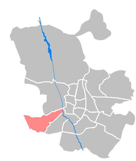 Locator maps of districts in Madrid: Maps - ES - Madrid - Latina.PNG